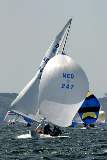 Fred Imhof, together with Richard van Rij and Rudy den Outer, on the helm of his Dragon "Danish Joker".